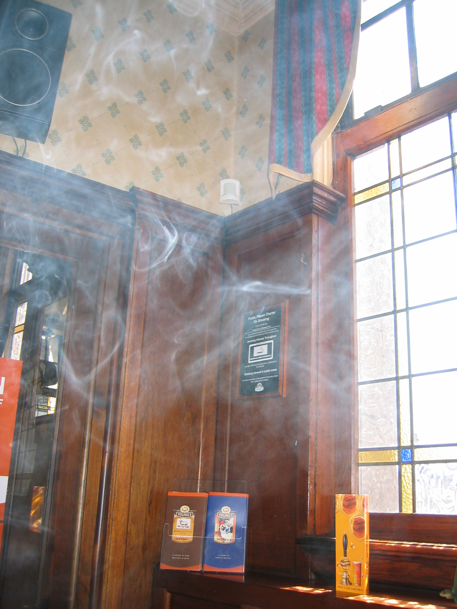 This photo illustrates smoke in a pub, a common complaint for those concerned with passive smoking.